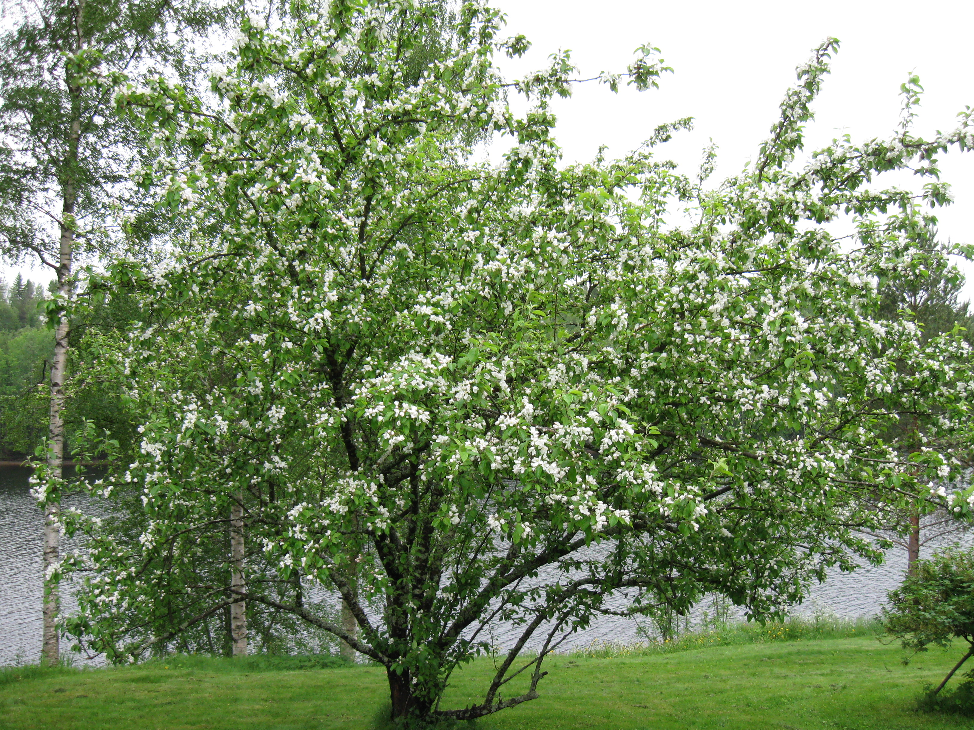 An apple tree in a Finnish garden full of flowers.